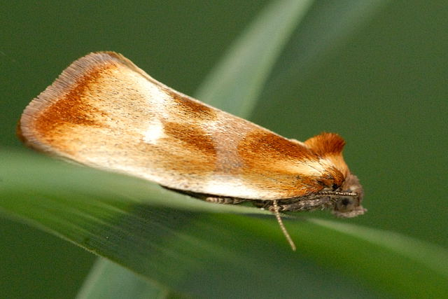 Eulia ministrana from Commanster, Belgian High Ardennes .